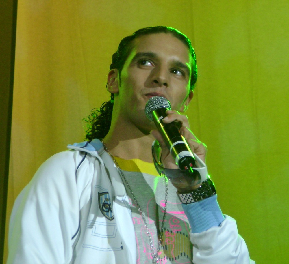 Dutch Rapper Ali B, September 13, 2008